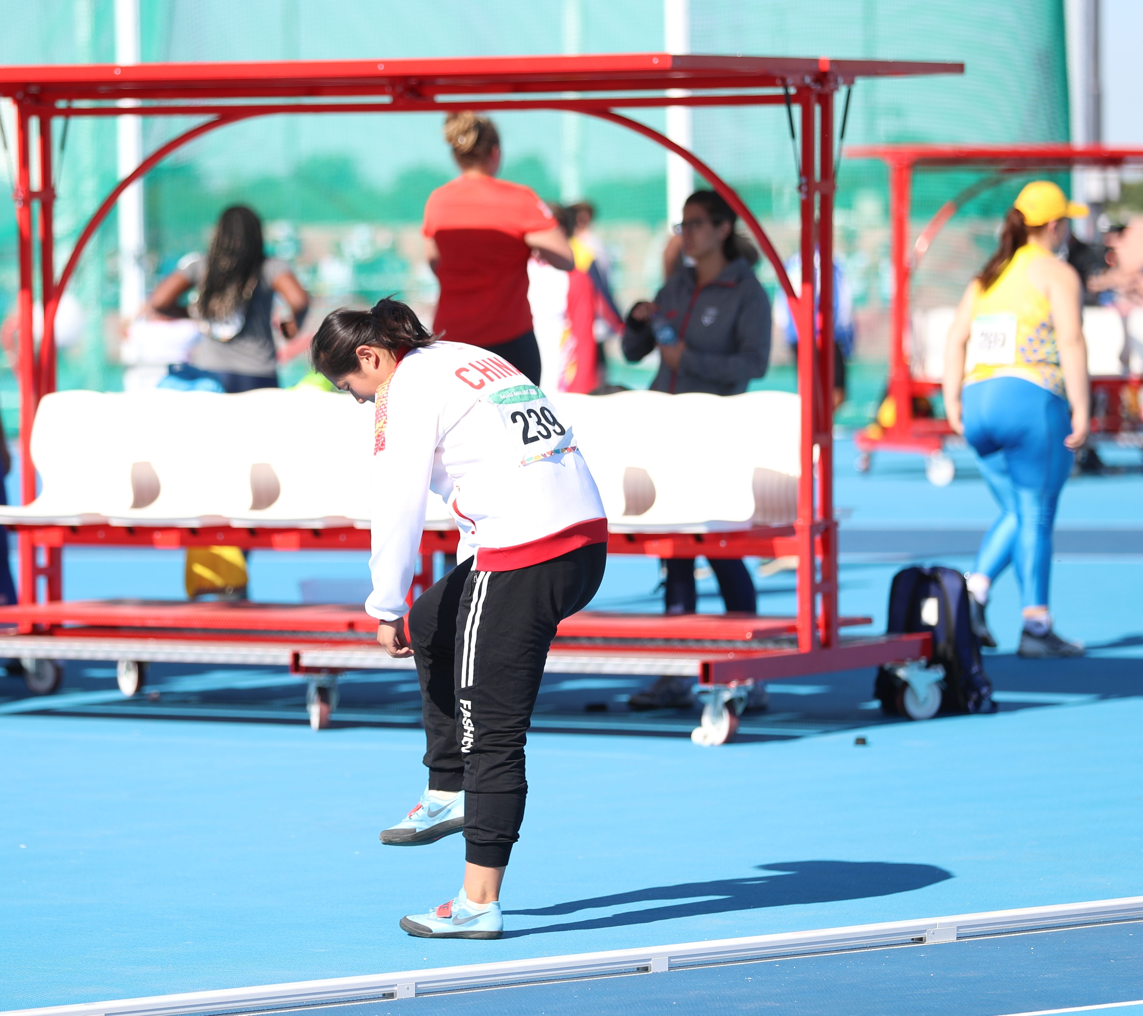 Athletics, Girls' Shot put Stage 2, at the 2018 Summer Youth Olympics in Buenos Aires on 15 October 2018.